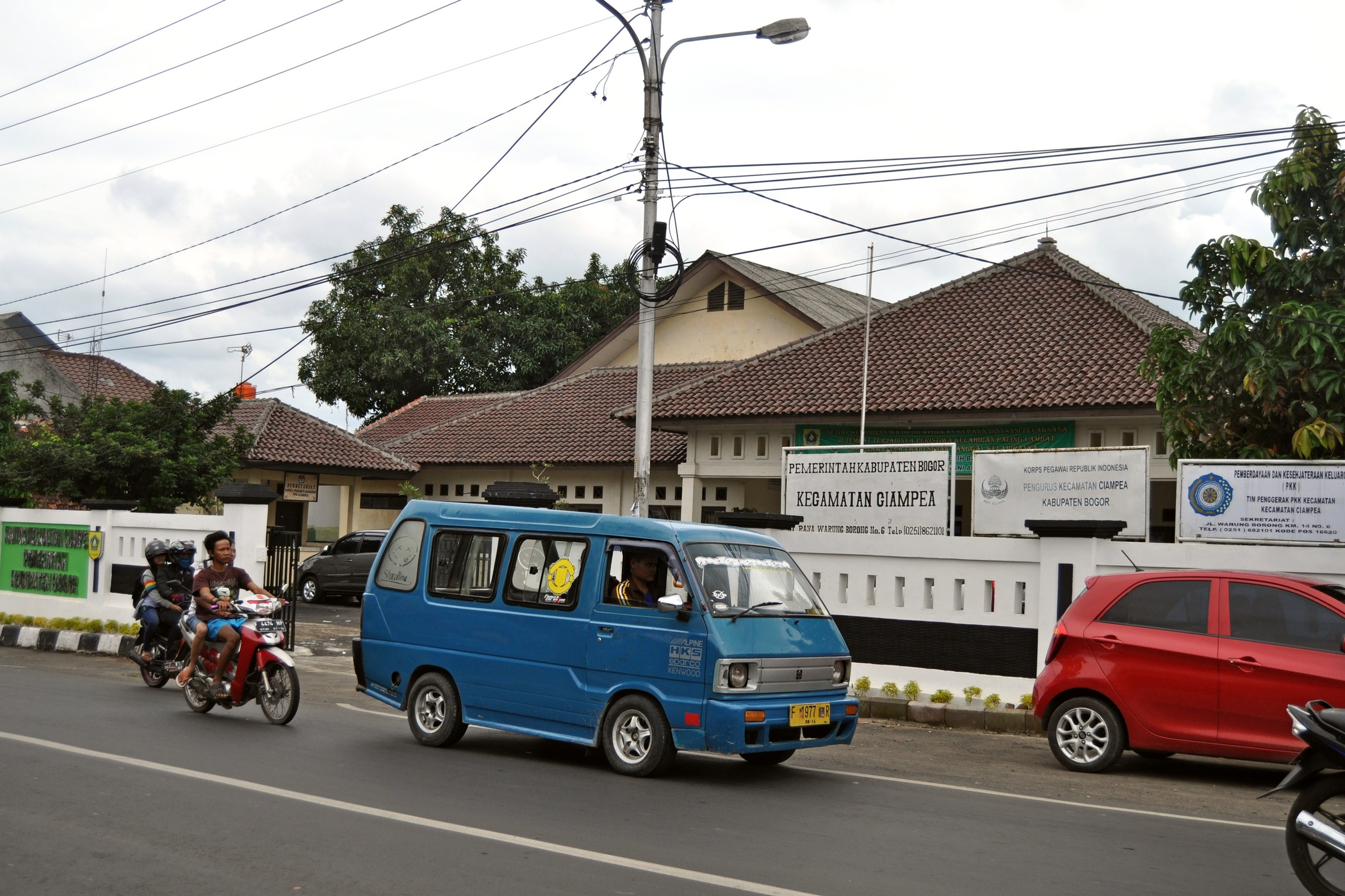 District gov't office of Ciampea, Bogor, West Java, Indonesia